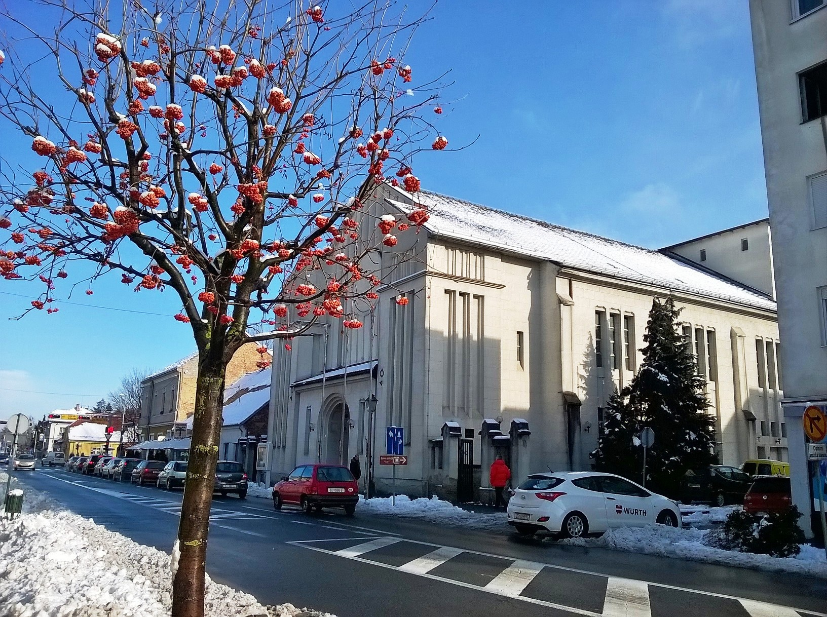 Former Jewish Synagogue in Bjelovar, Croatia. This is a a photo of a cultural heritage in Croatia with ID:Z-3164